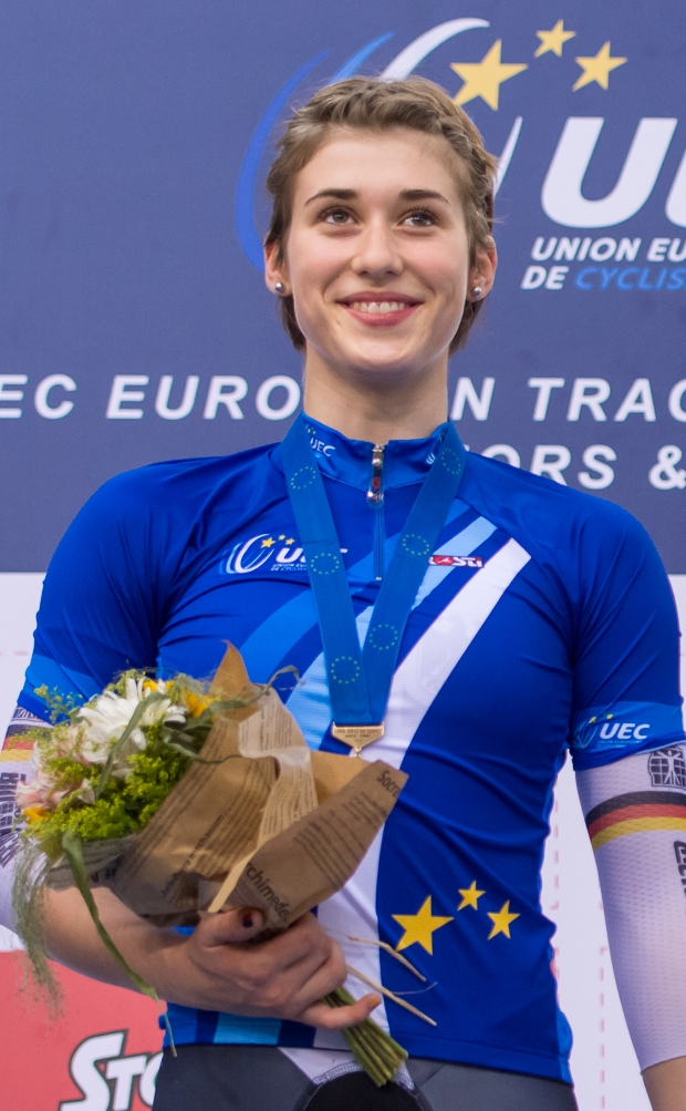 Pauline Grabosch during the medal ceremony at the European Junior Track Championships 2015 in Athens